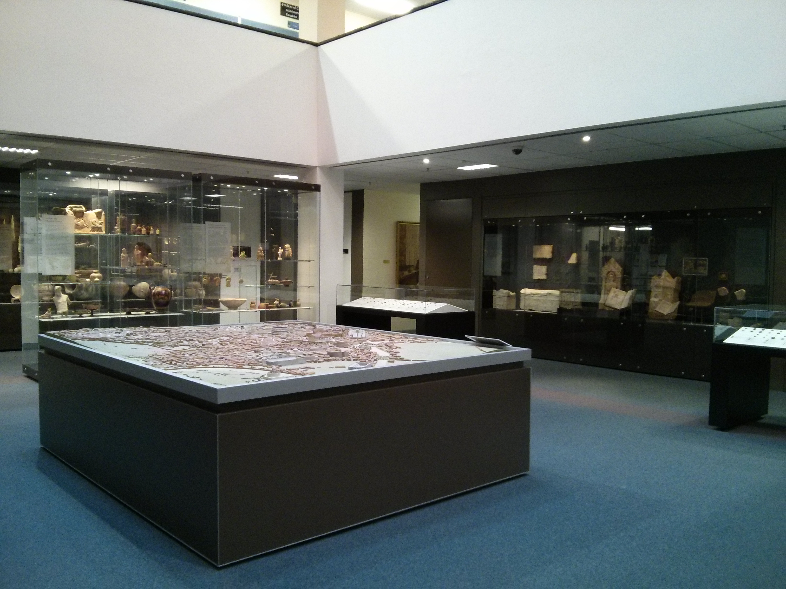 The interior of the ANU Classics Museum, with a model of ancient Rome in the foreground and some of the cases housing items in the background